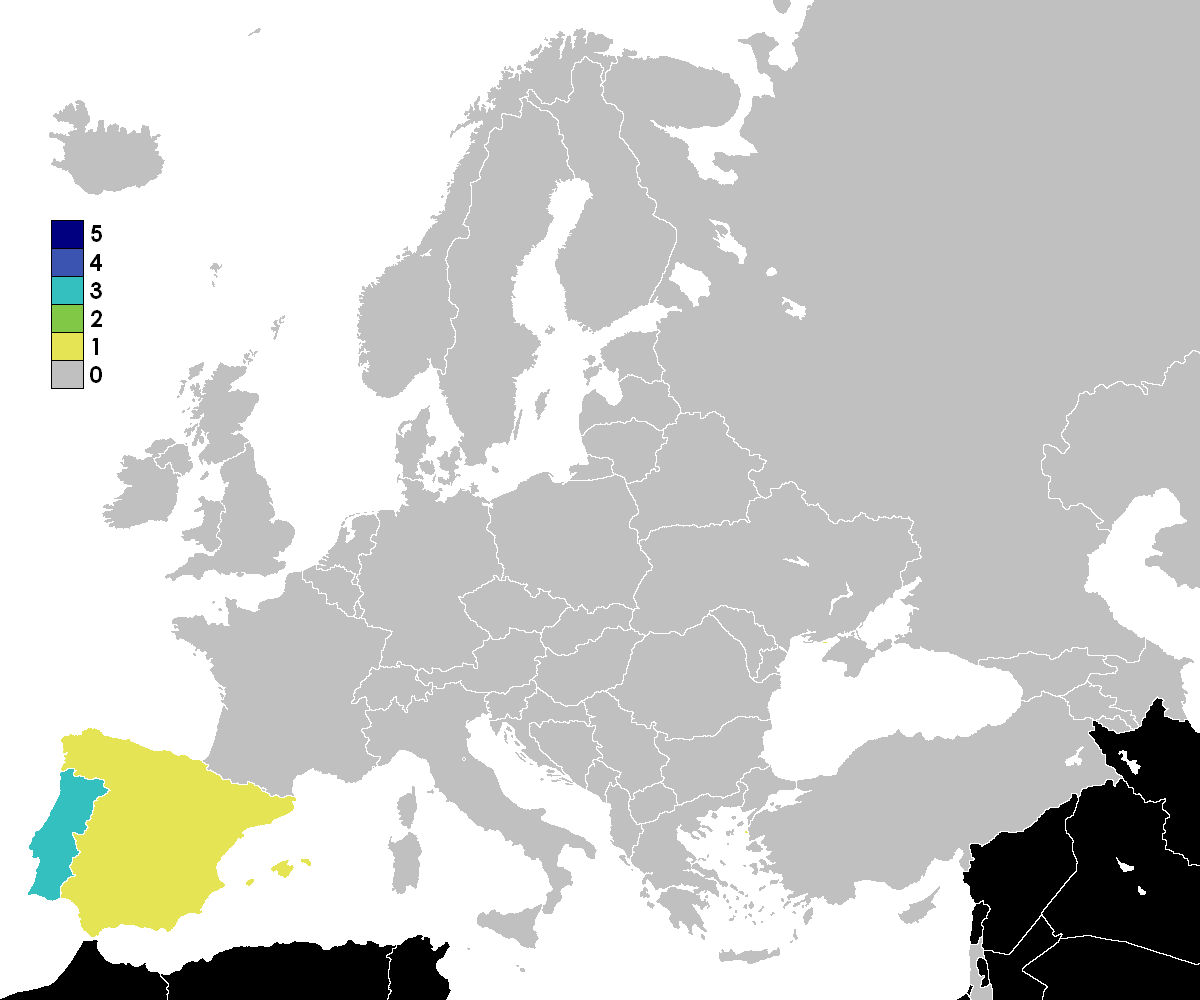 Number of allocated teams per country in 2010–11 UEFA Europa League.